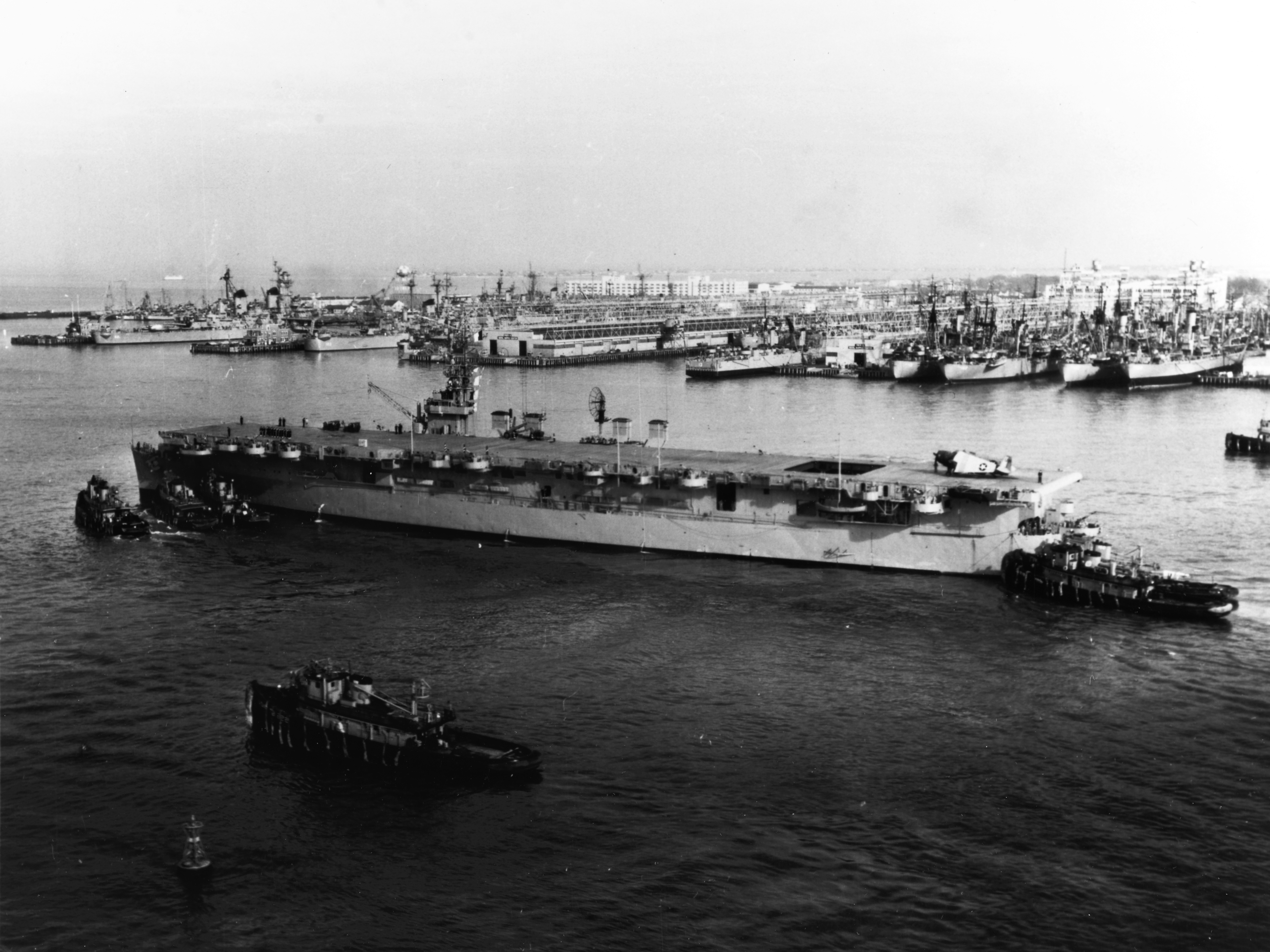 The French aircraft carrier Bois Belleau (R97), formerly USS Belleau Wood (CVL-24), is moved to a berth at the Naval Station Norfolk, Virginia (USA), to load aircraft in December 1953, shortly before her departure for France. Among the ships in the background are the battleship USS New Jersey (BB-62), the heavy cruiser USS Albany (CA-123) and the dock landing ship USS Casa Grande (LSD-13).